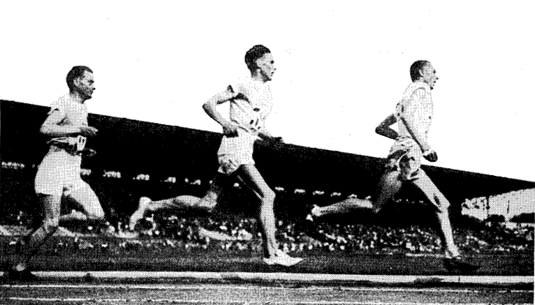 Runners Nurmi (Finland], Ritola (Finland) and Vide (Wide) (Sweden). Taken 1924 or before. N. Shown is the Stade de Colombe built for the 1924 Summer Olympics, later renamed Stade Yves du Manoir.